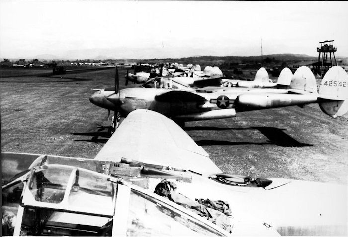 P-38s of the 36th Fighter Squadron, 8th FG, Mindiro, Phillipines, 1944